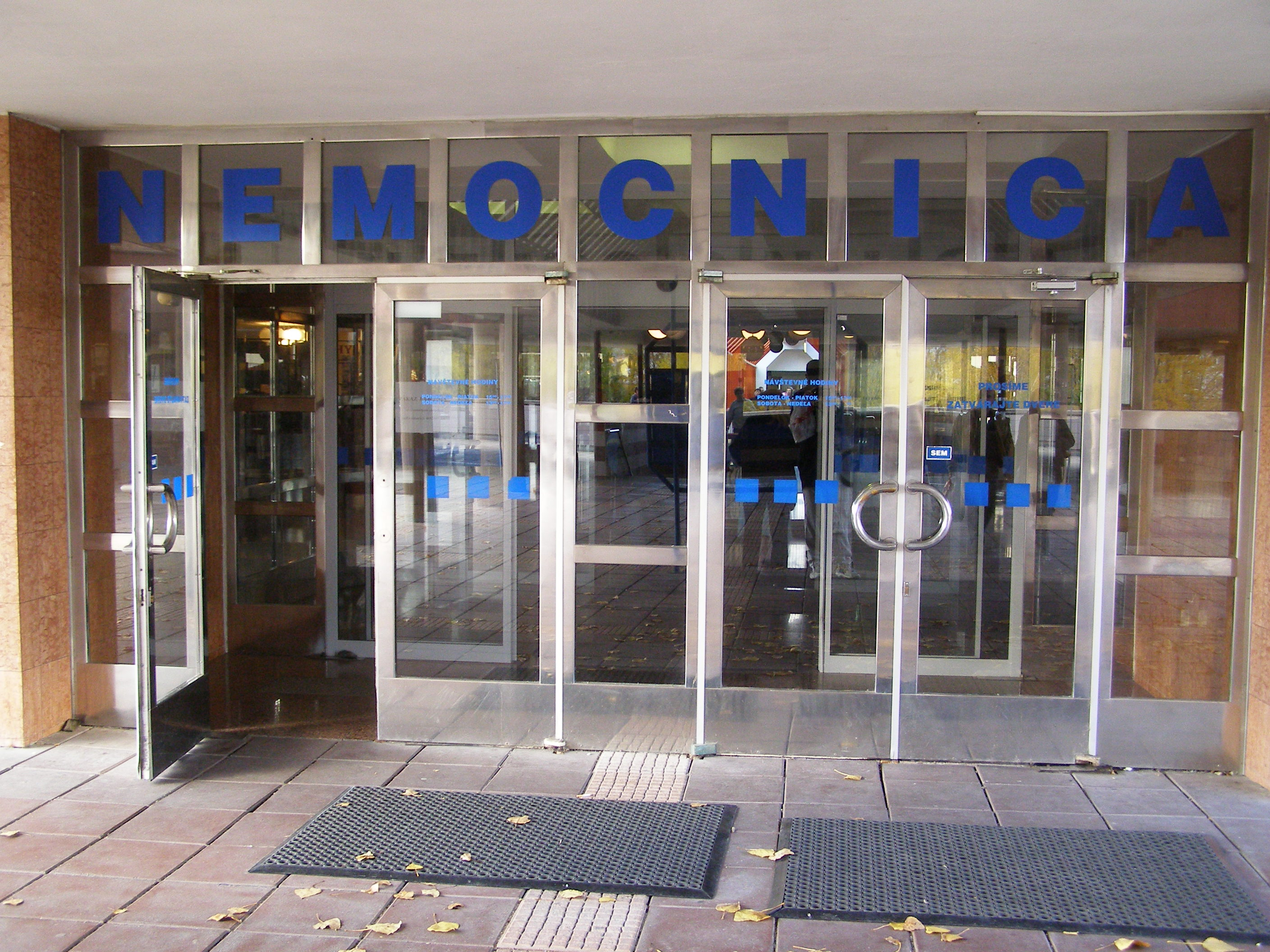 Entrance of St. Cyril and Method Hospital in Petržalka, Bratislava, Slovakia